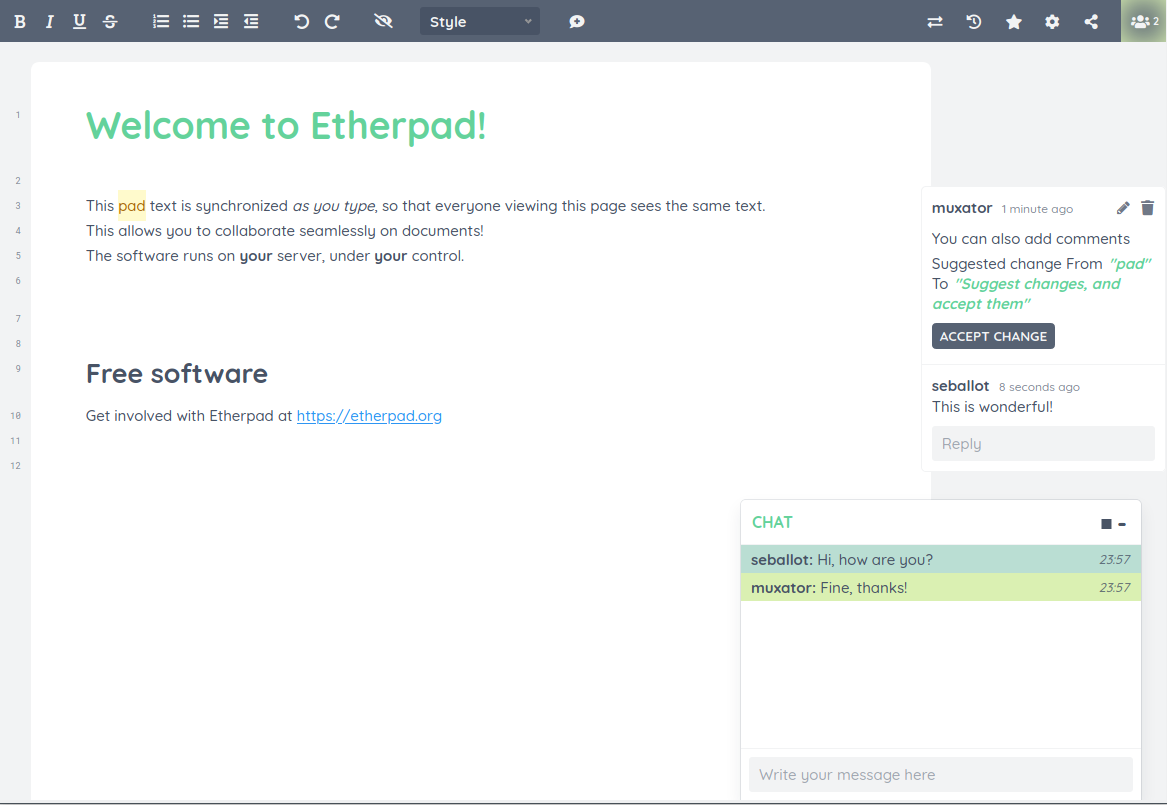 This a screenshot of Etherpad 1.8.4 with two additional plugins: ep_comments_page, ep_headings2. Rendered with Firefox 76.